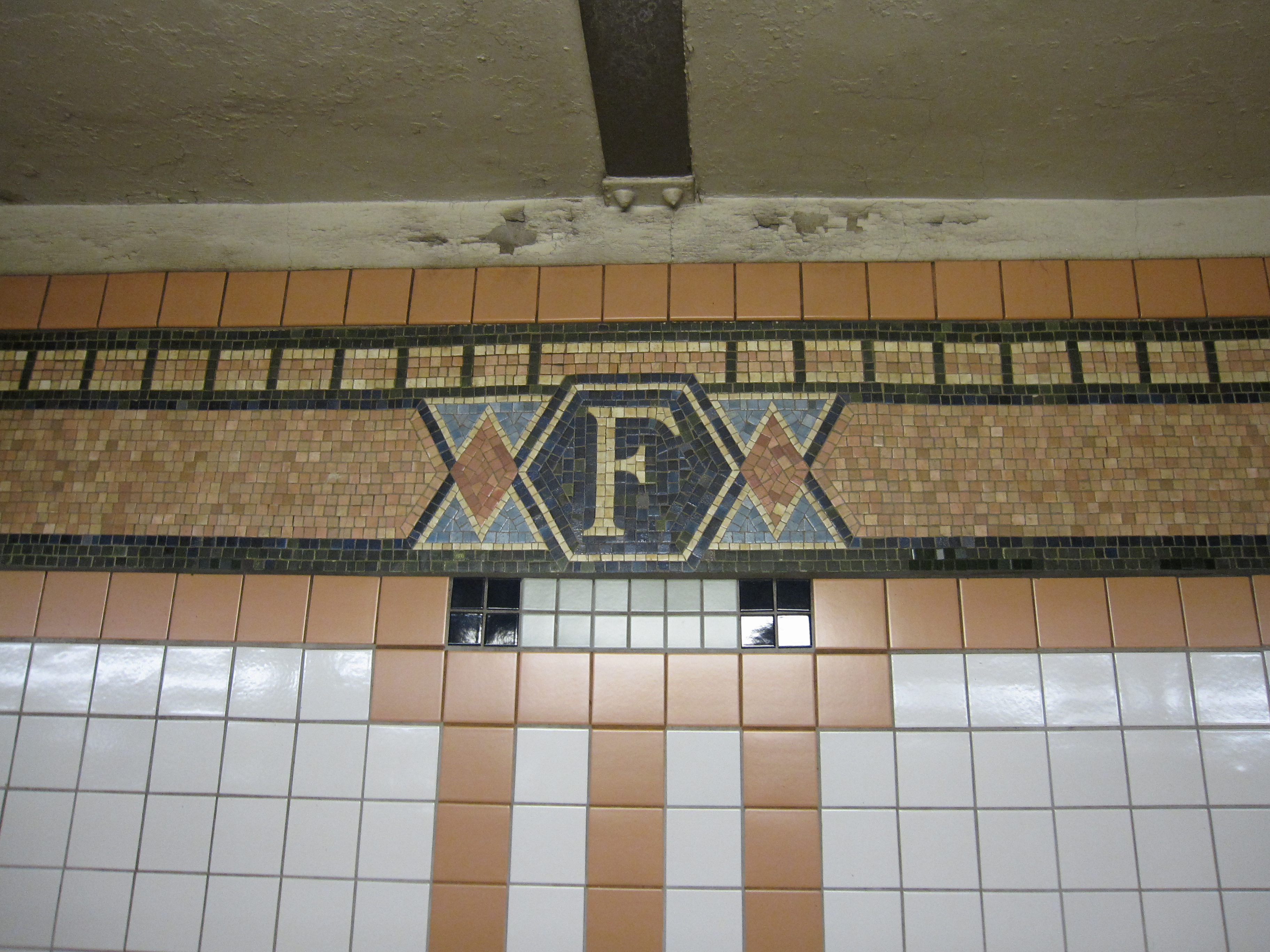 Category:Franklin Street (IRT Broadway – Seventh Avenue Line)